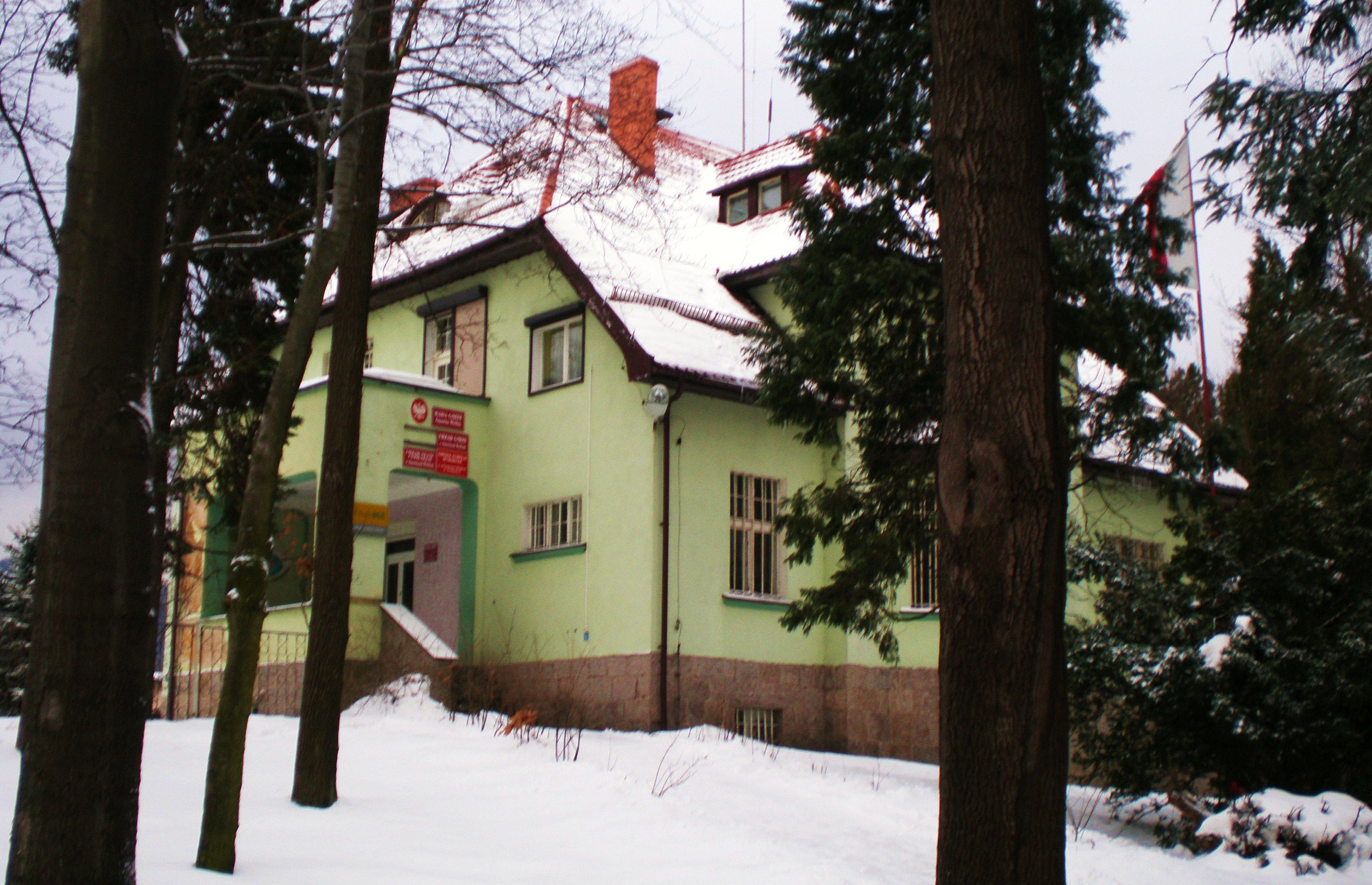 Municipal Office in Janowice Wielkie (Poland).